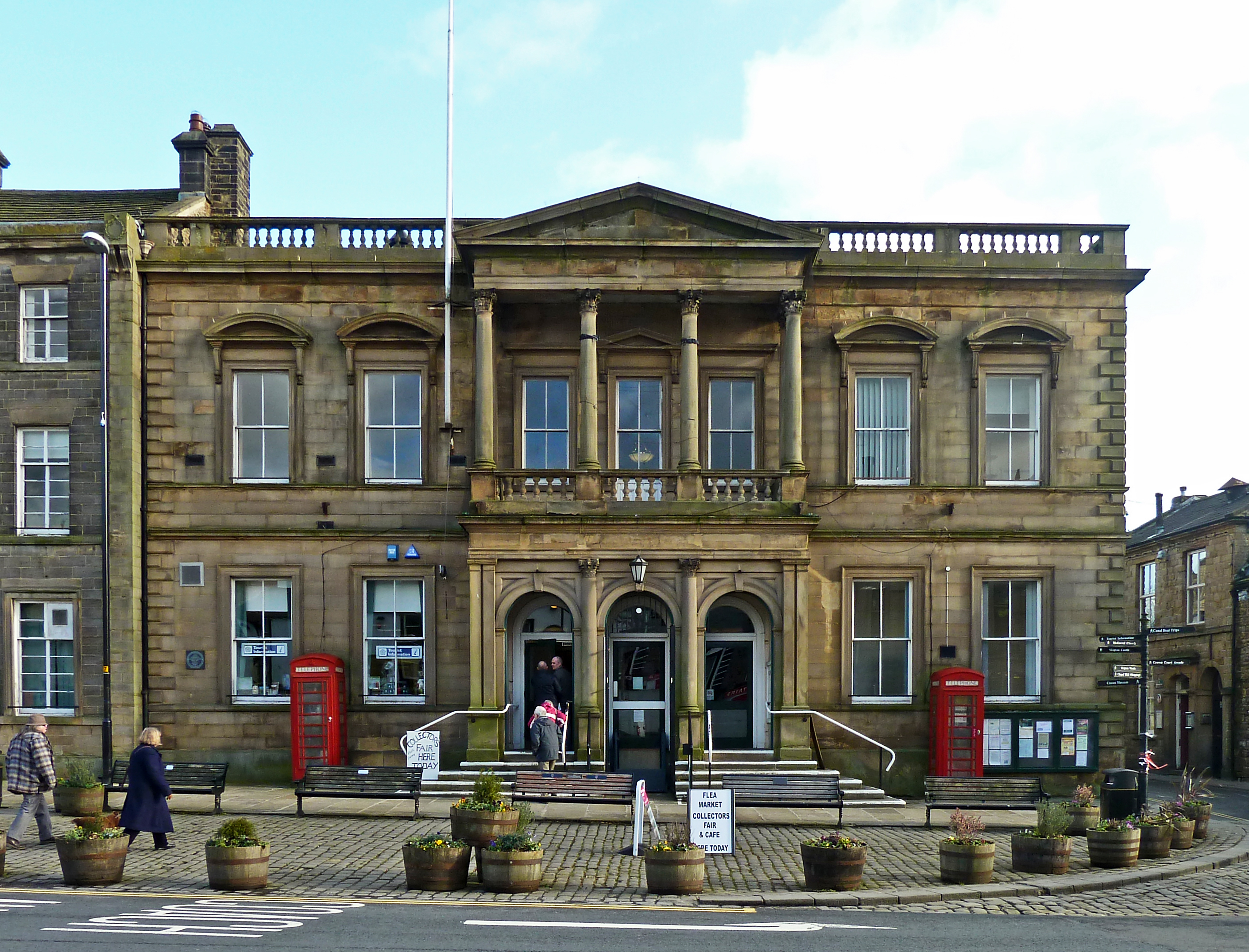 Skipton Town Hall